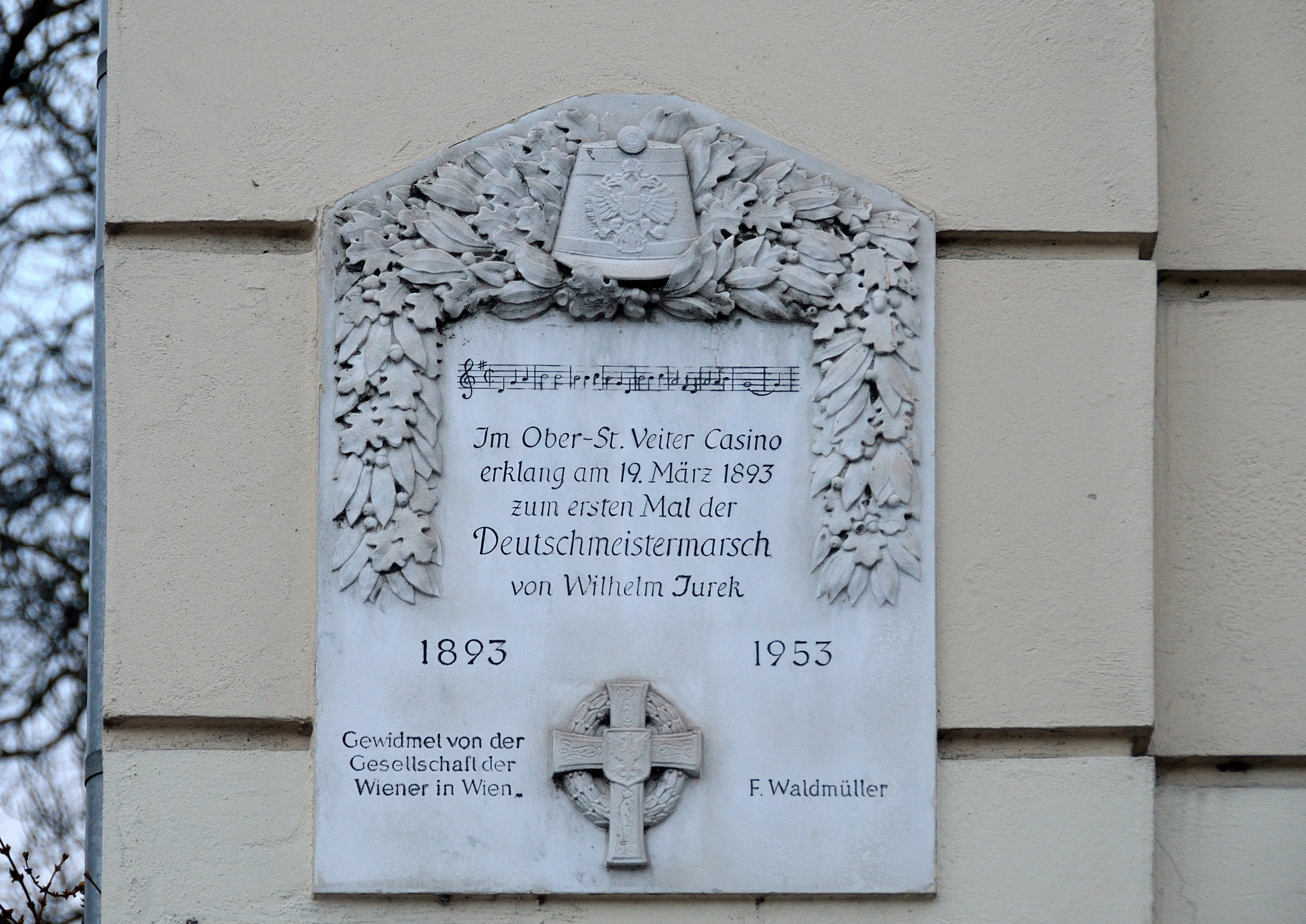 In the casino of Ober-St. Veiter on March 19, 1893 the Deutschmeistermarch by Wilhelm Jurek was performed the first time. Plaque remembering the 60th anniversary in 1953.